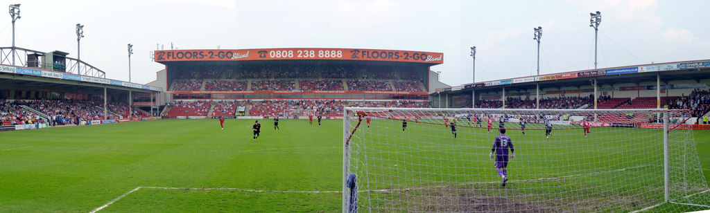 The Bescot Stadium, near to Walsall, Great Britain.